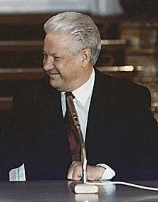 Boris Yeltsin, President of Russia, during the signature ceremony of the START II in Moscow, January 3rd, 1993.